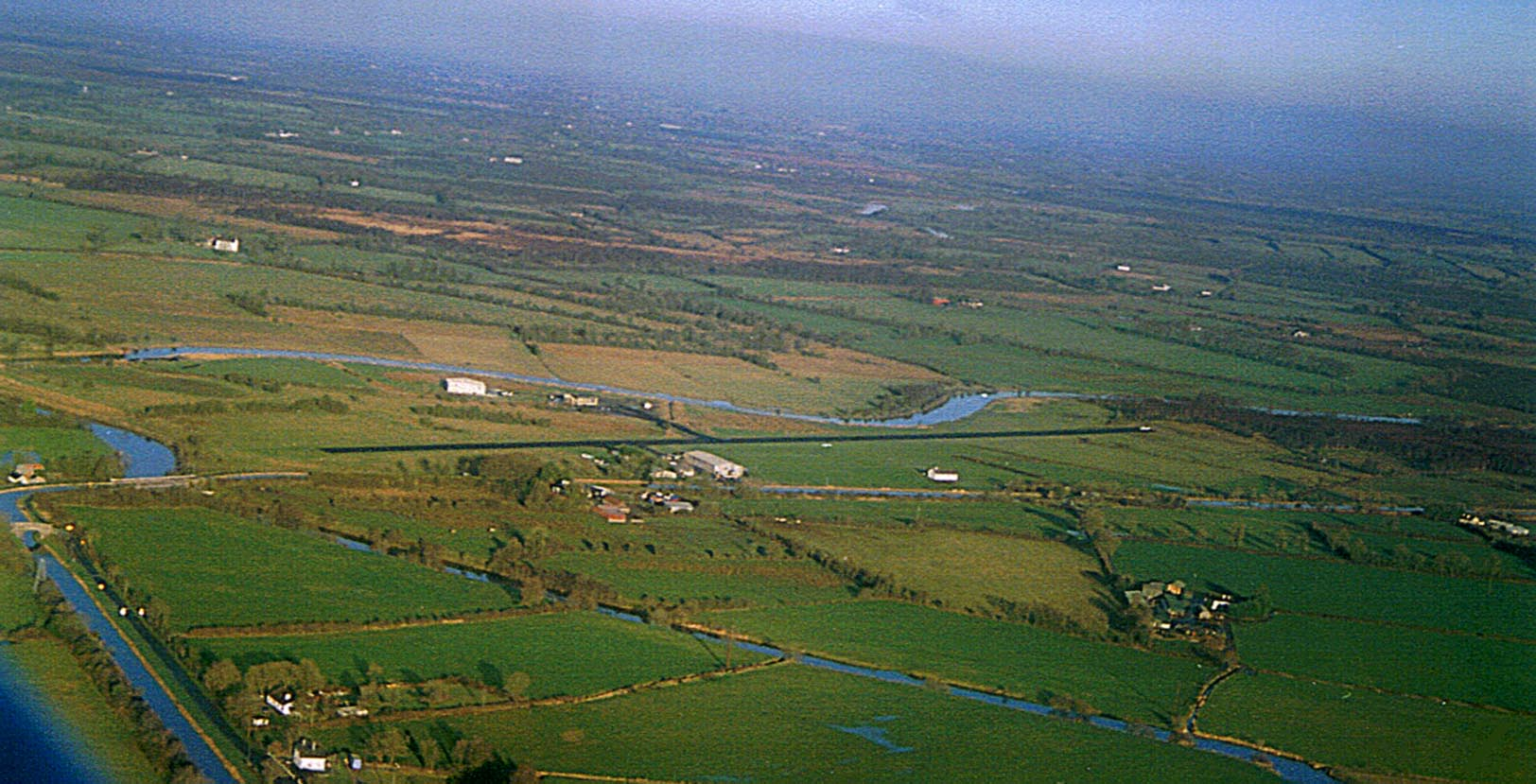 I took this photograph.